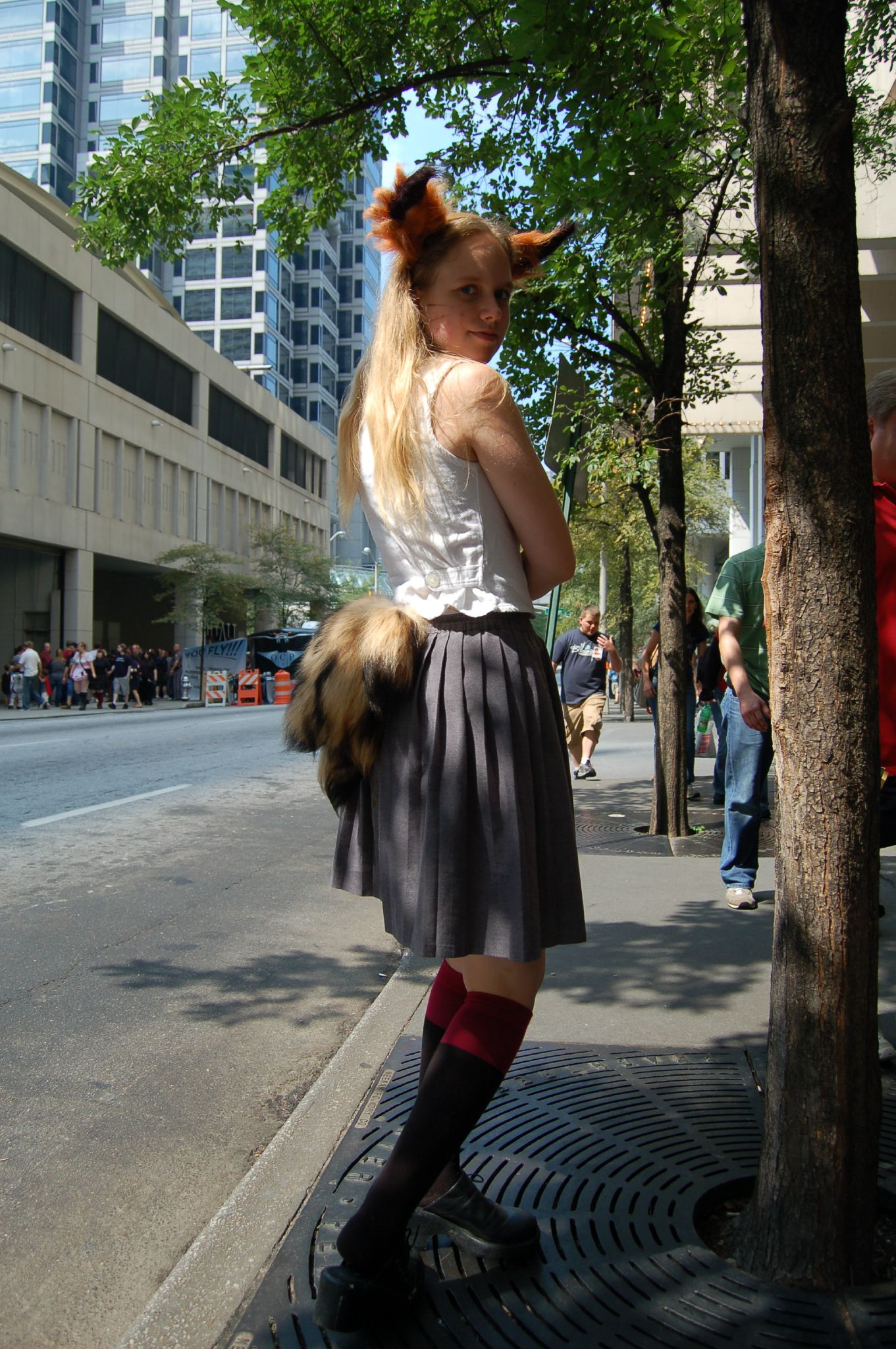 A foxgirl cosplay at Dragon Con 2006